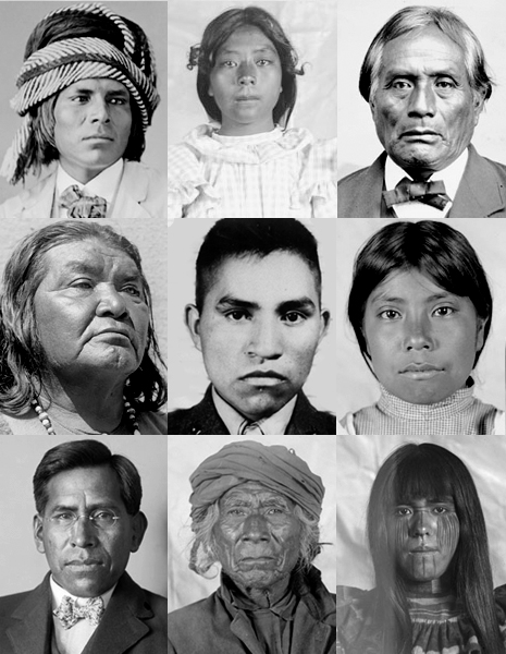 Collage of Pima/Papago Native Americans from public domain sources